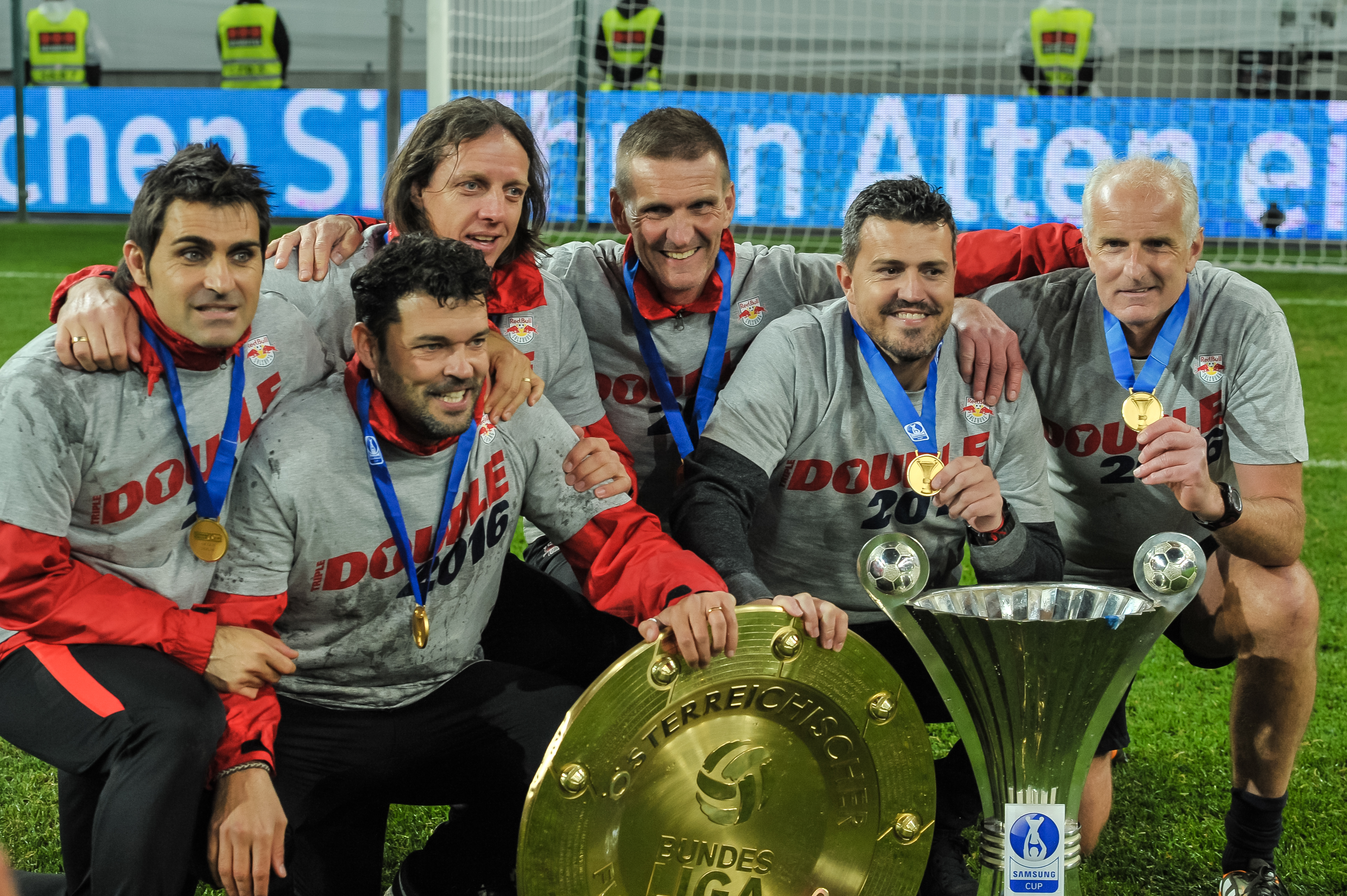 ÖFB Samsung Cup-Finale - FC Admira Wacker Mödling vs FC Red Bull Salzburg am 19. Mai 2016 in Klagenfurt. Bild zeigt Trainer von Red Bull Salzburg.